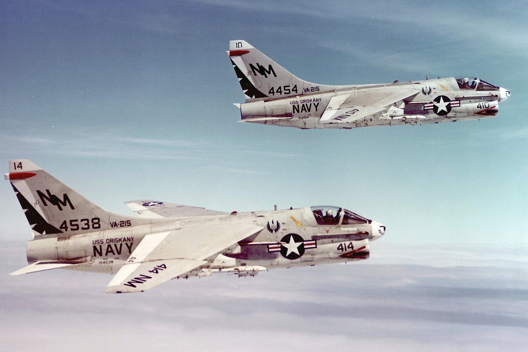 Two U.S. Navy Ling-Temco-Vought A-7B Corsair II (BuNo 154538, 154454) from Attack Squadron VA-215 "Barn Owls" in flight. VA-215 was assigned to Carrier Air Wing 19 (CVW-19) aboard the aircraft carrier USS Oriskany (CVA-34) for a deployment to Vietnam from 14 May to 18 December 1971. Note that the guns of both aircraft have been fired.